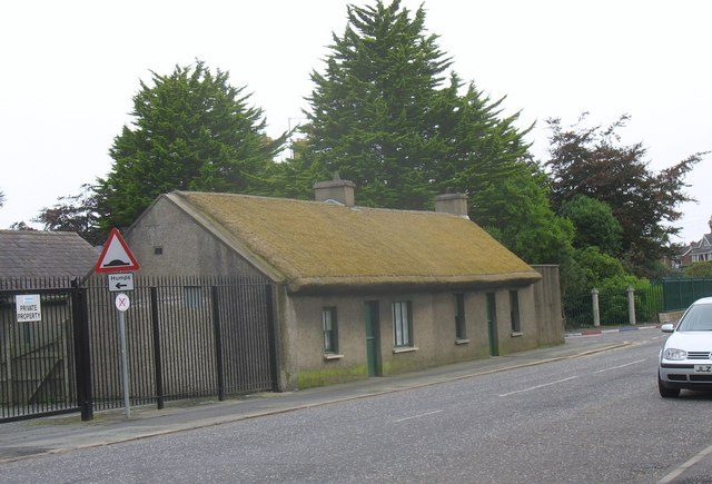 Thatched Cottages in Greencastle Street, Kilkeel These are located next to the Kilkeel Campus of the Southern Regional College.